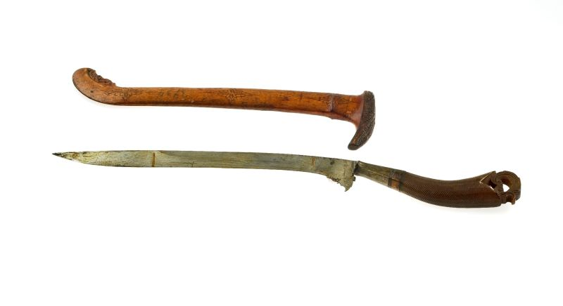 Rencong dagger from Aceh with horn hilt and wooden scabbard